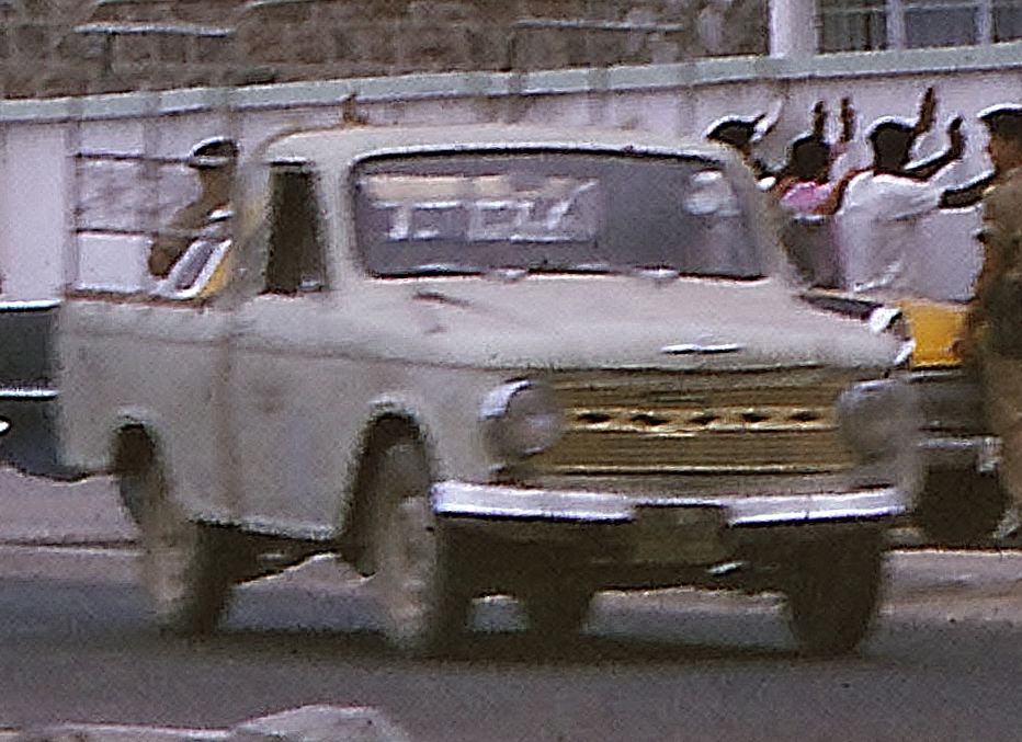 Hino Briska truck Aden (Yemen), 1966